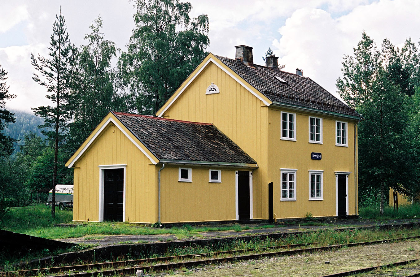 Norefjord railway station, Numedalsbanen, Norway.